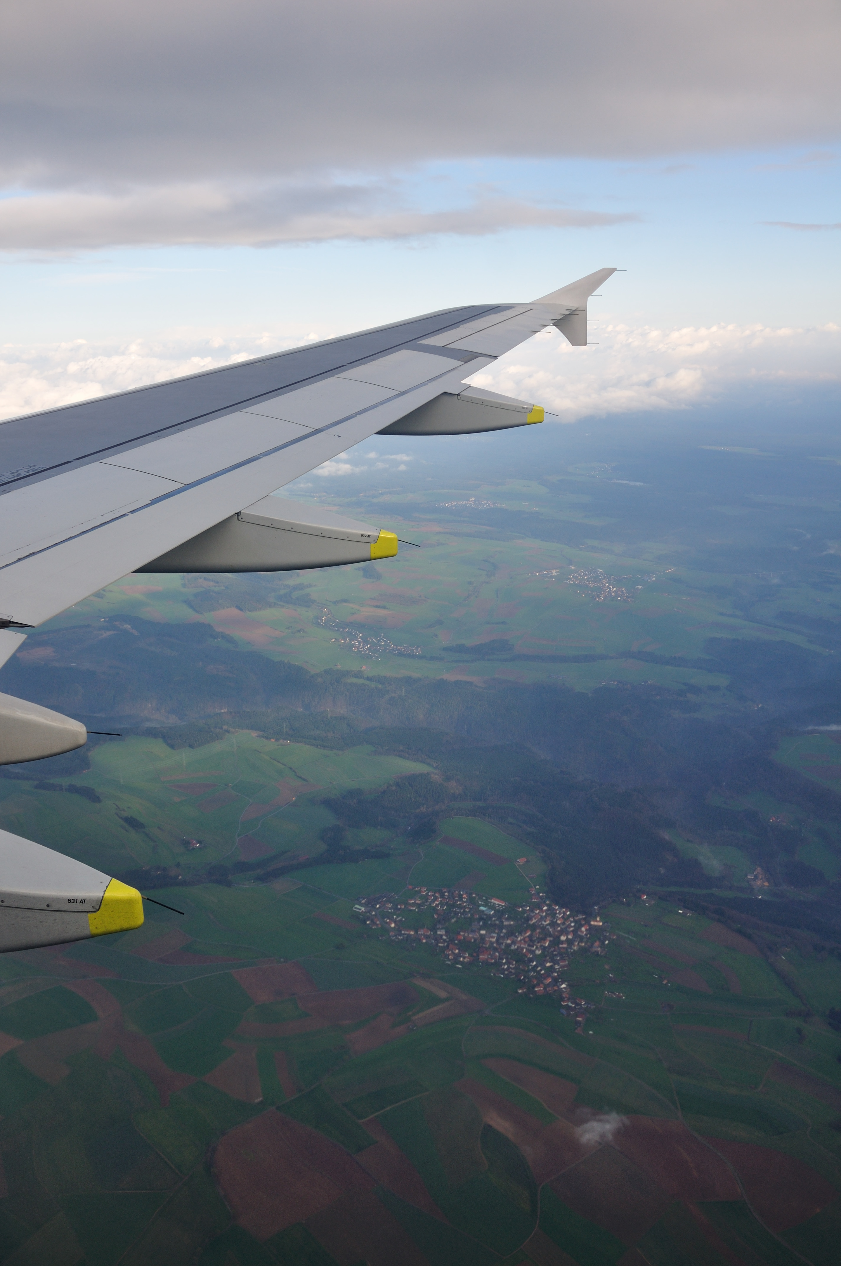 Germany, Baden-Württemberg, eastern slope of the Black Forest, aerial view (NW) over Ewattingen in the foreground and Bachheim (left) and Unadingen (right) behind the Wutach gorge